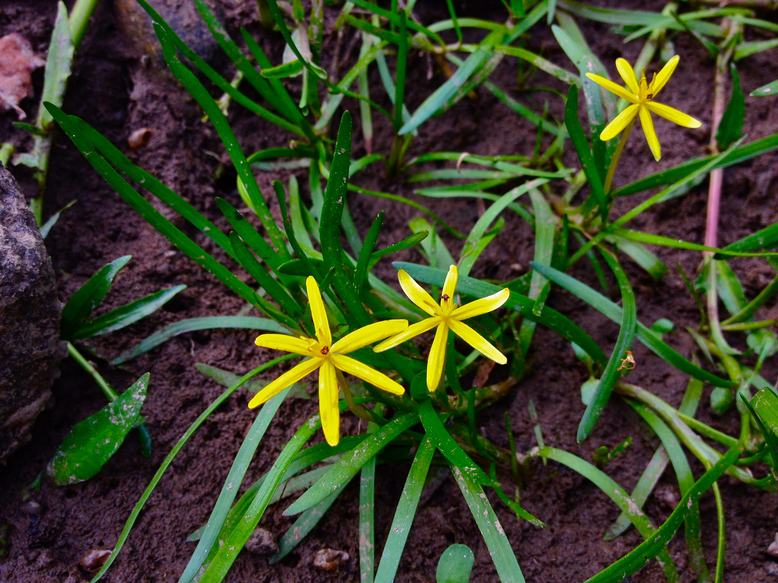 Photo of Heteranthera dubia in flower. This is a native plant growing wild along the Potomac Heritage Trail, in Fairfax county Virginia, USA. This species is a member of the Pontederiaceae family.